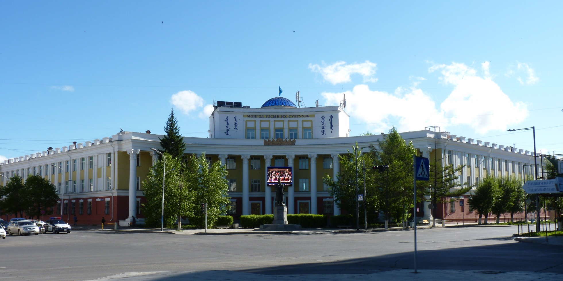 MNU main building